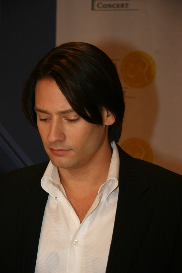 Nobel Peace Prize Concert 2008, Il Divo, Urs Bühler